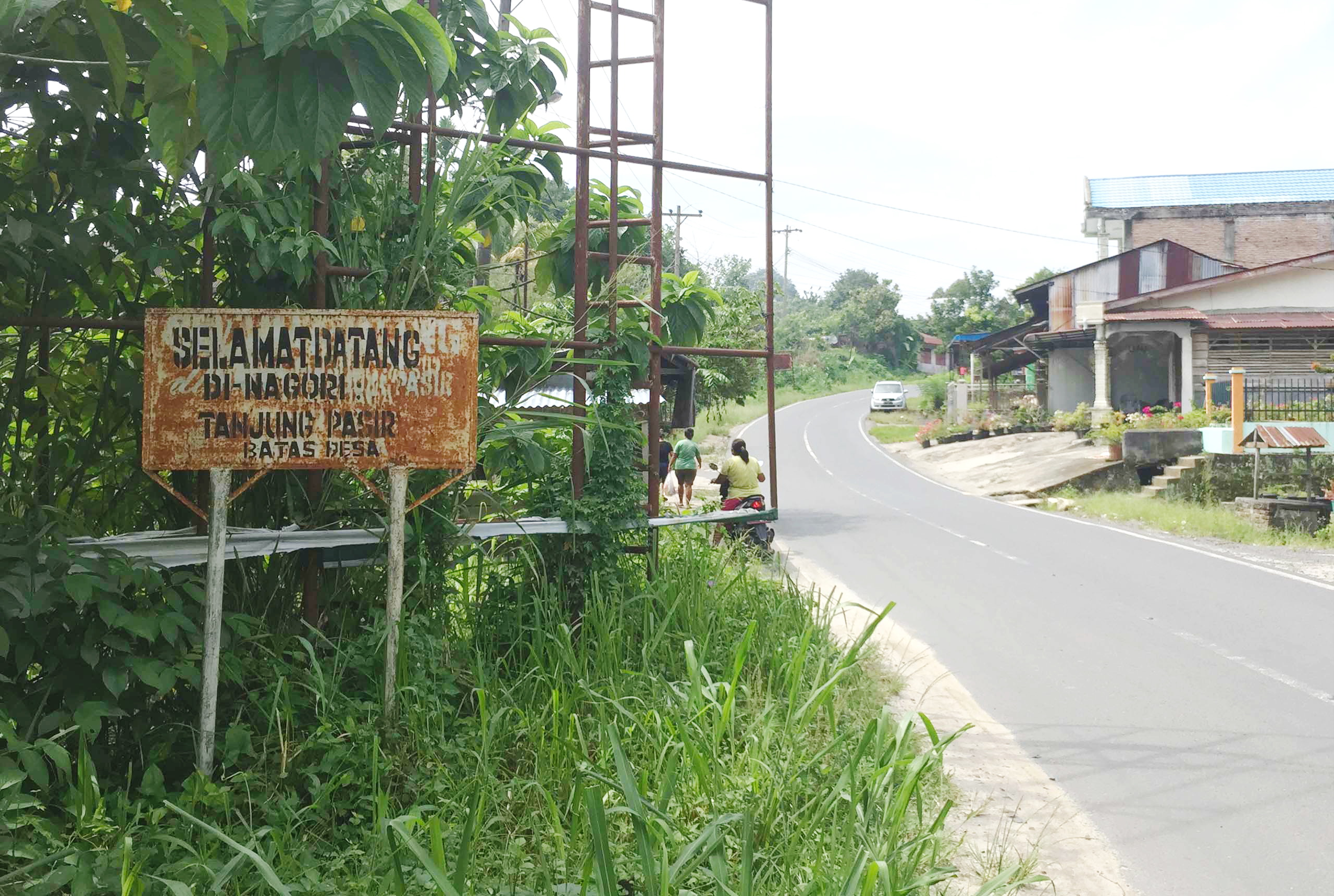 Welcome gate to Tanjung Pasir, Tanah Jawa, Simalungun